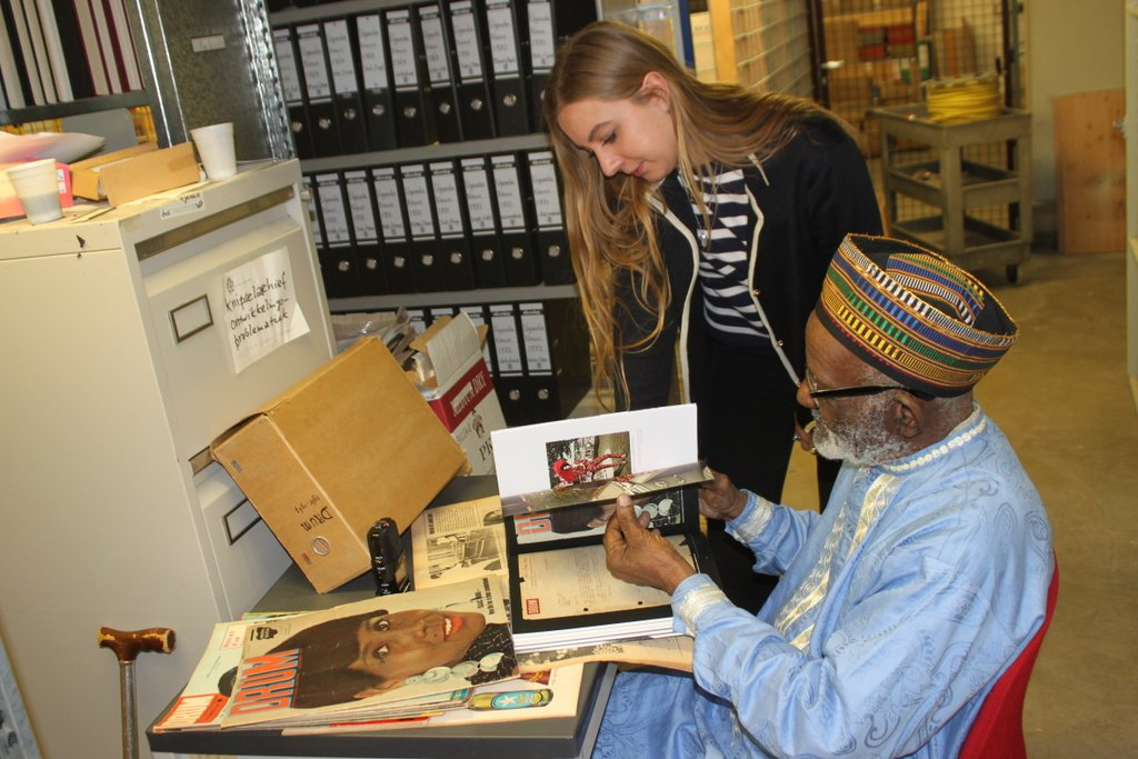 Ghanaian photographer James Barnor visiting the African Studies Centre, Leiden University, 21 March 2016